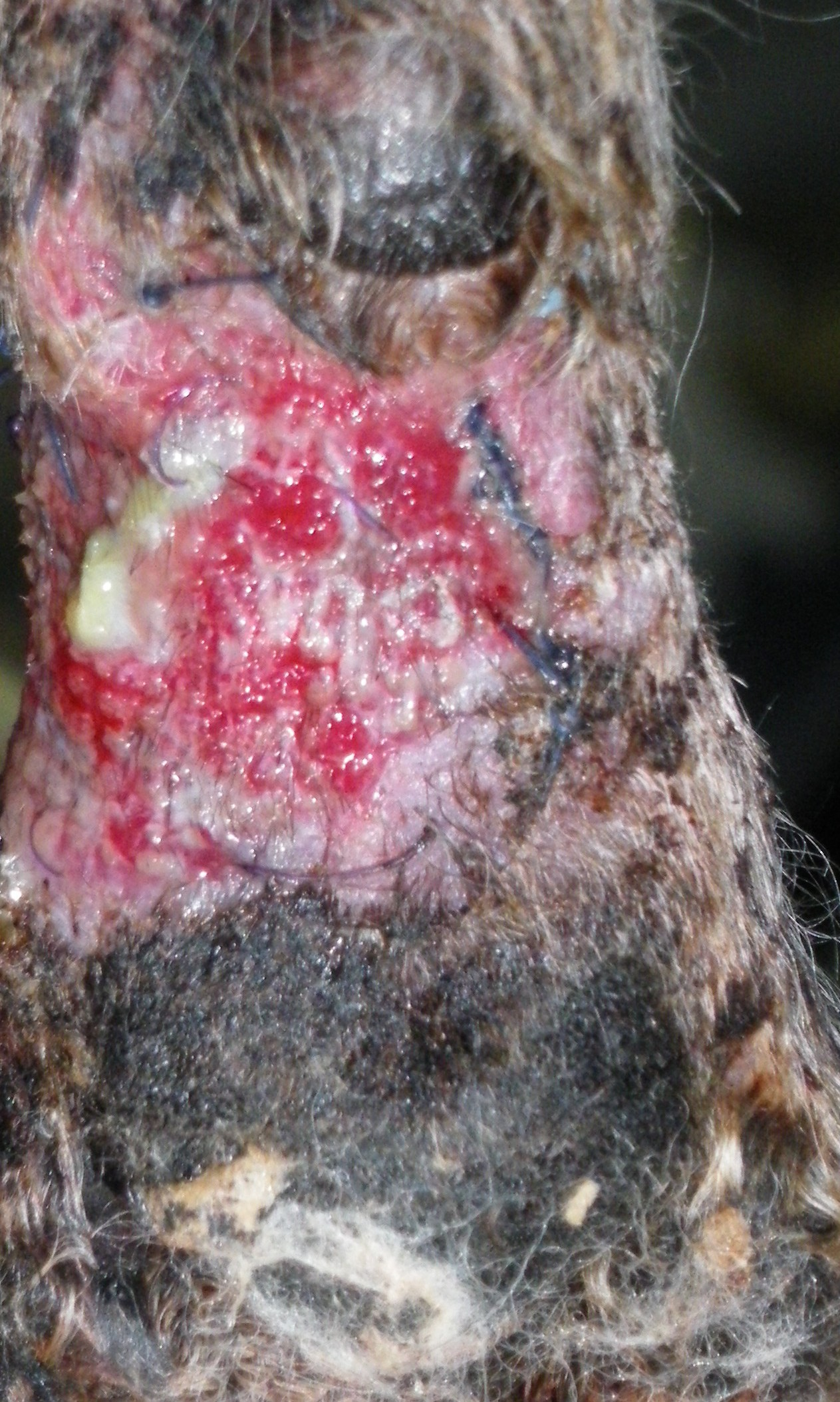 skin graft on palmar surface of metacarpus in a dog one week after transplantation